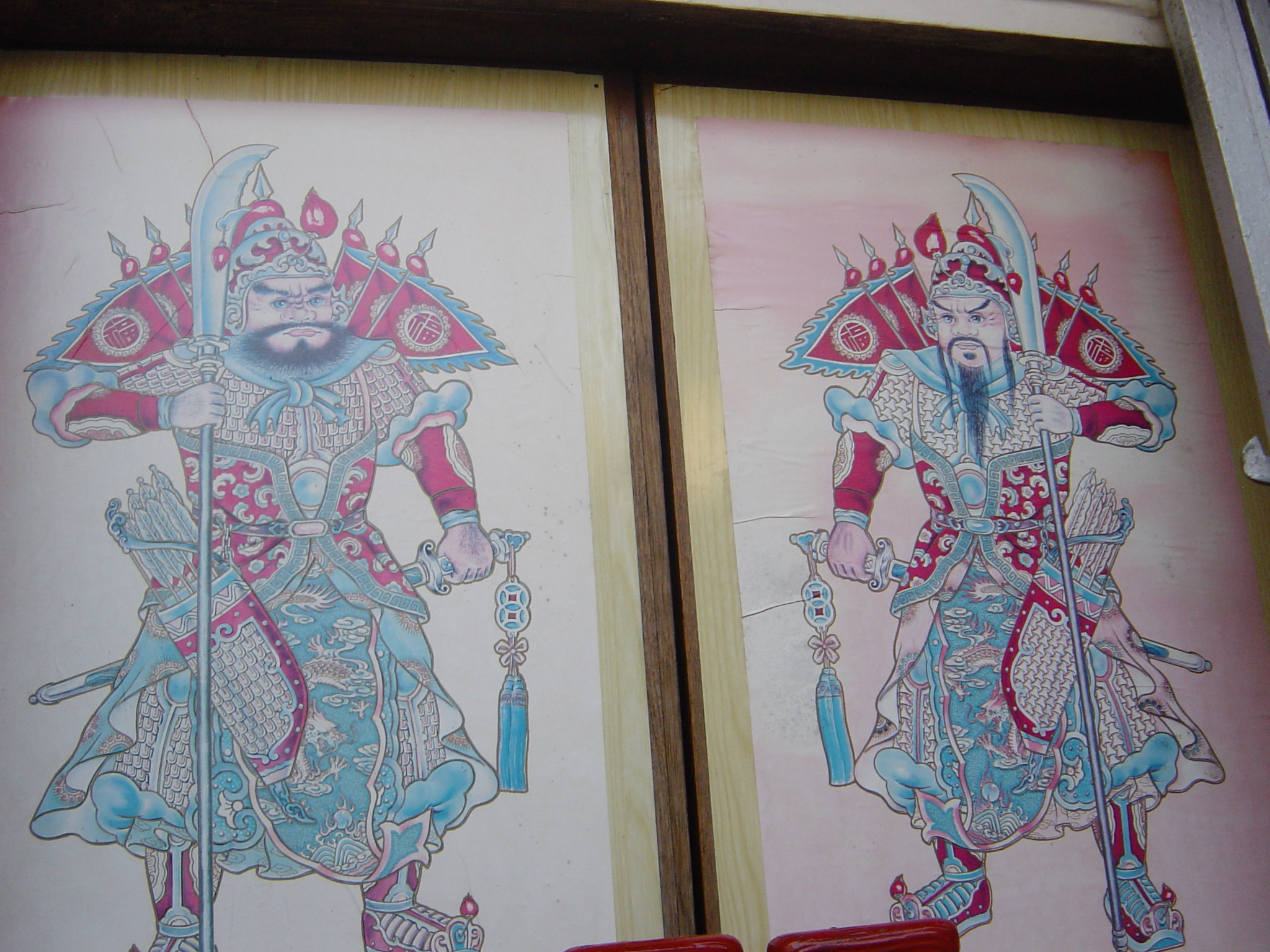 香港一舊式村落的門神圖。Door God in old village of Hong Kong.